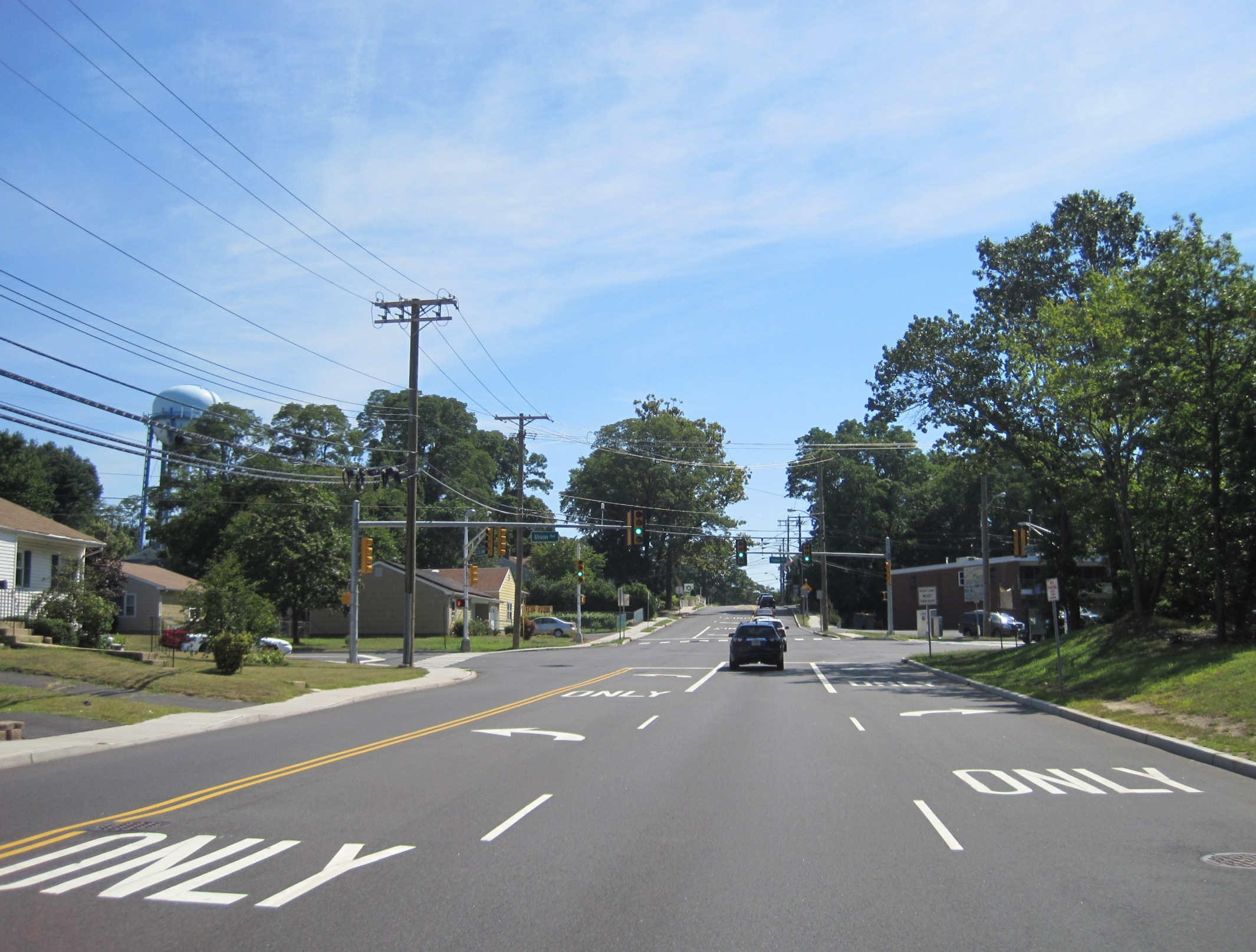 Photo of North Centerville, New Jersey, an unincorporated community within and the approximate center of Hazlet. Photo taken along eastbound Middle Road (County Route 516) at Union Avenue.